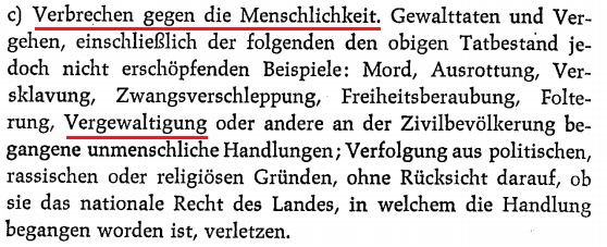 Excerpt from a German version of Control Council Law No. 10 (enacted on 20 December 1945), which listed 'rape' (Vergewaltigung) as a 'crime against humanity' (Verbrechen gegen die Menschlichkeit). Furthermore, subsequent words describe rape and the other previously mentioned acts as 'inhumane acts committed against the civilian population'.